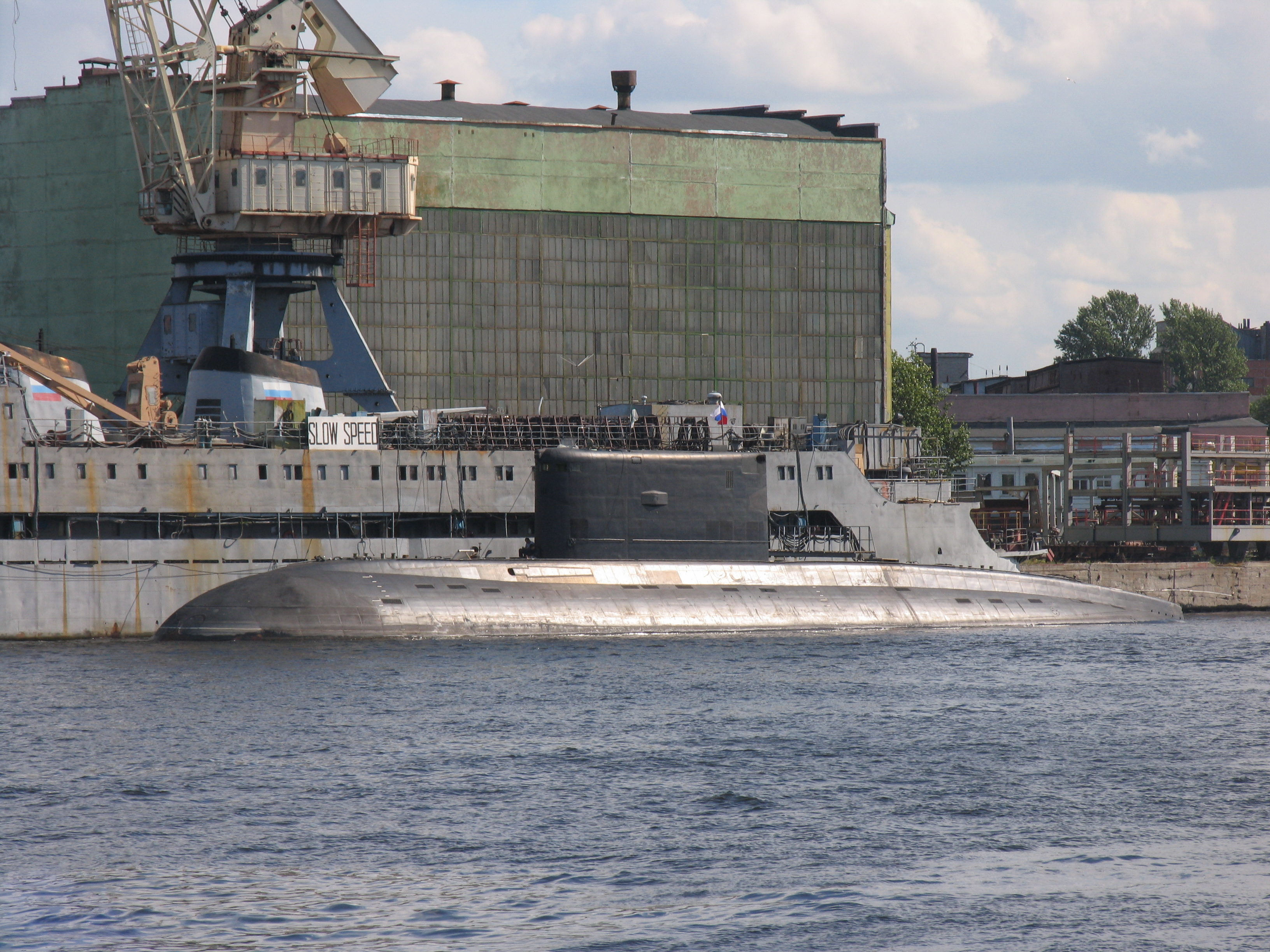 Russian built project 636M Algerian submarine «Akram Pacha» in Saint-Petersburg.